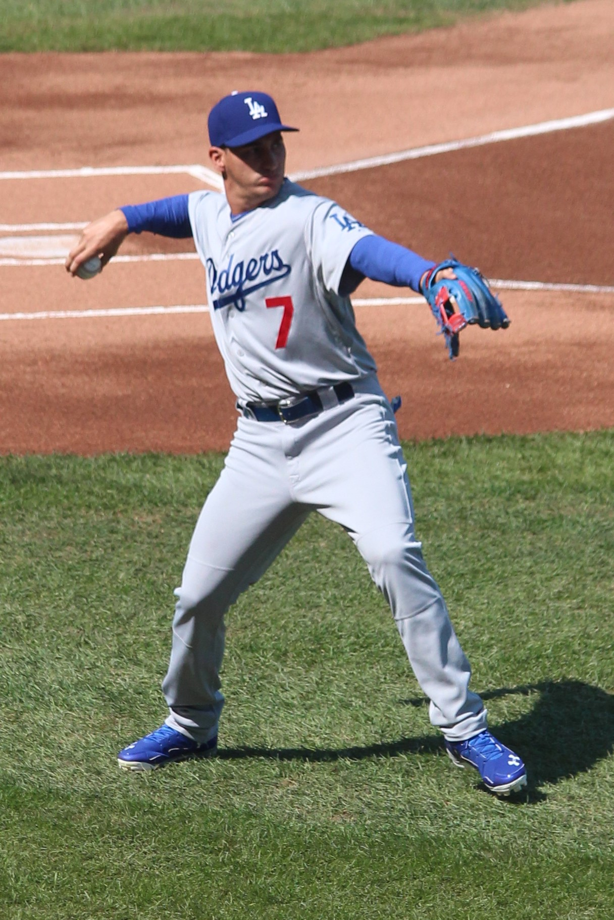 Alexander Guerrero for the 2014 Los Angeles Dodgers against the 2014 Chicago Cubs at Wrigley Field.